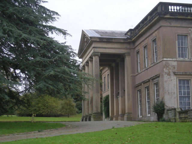 Portico at Castell Brogyntyn